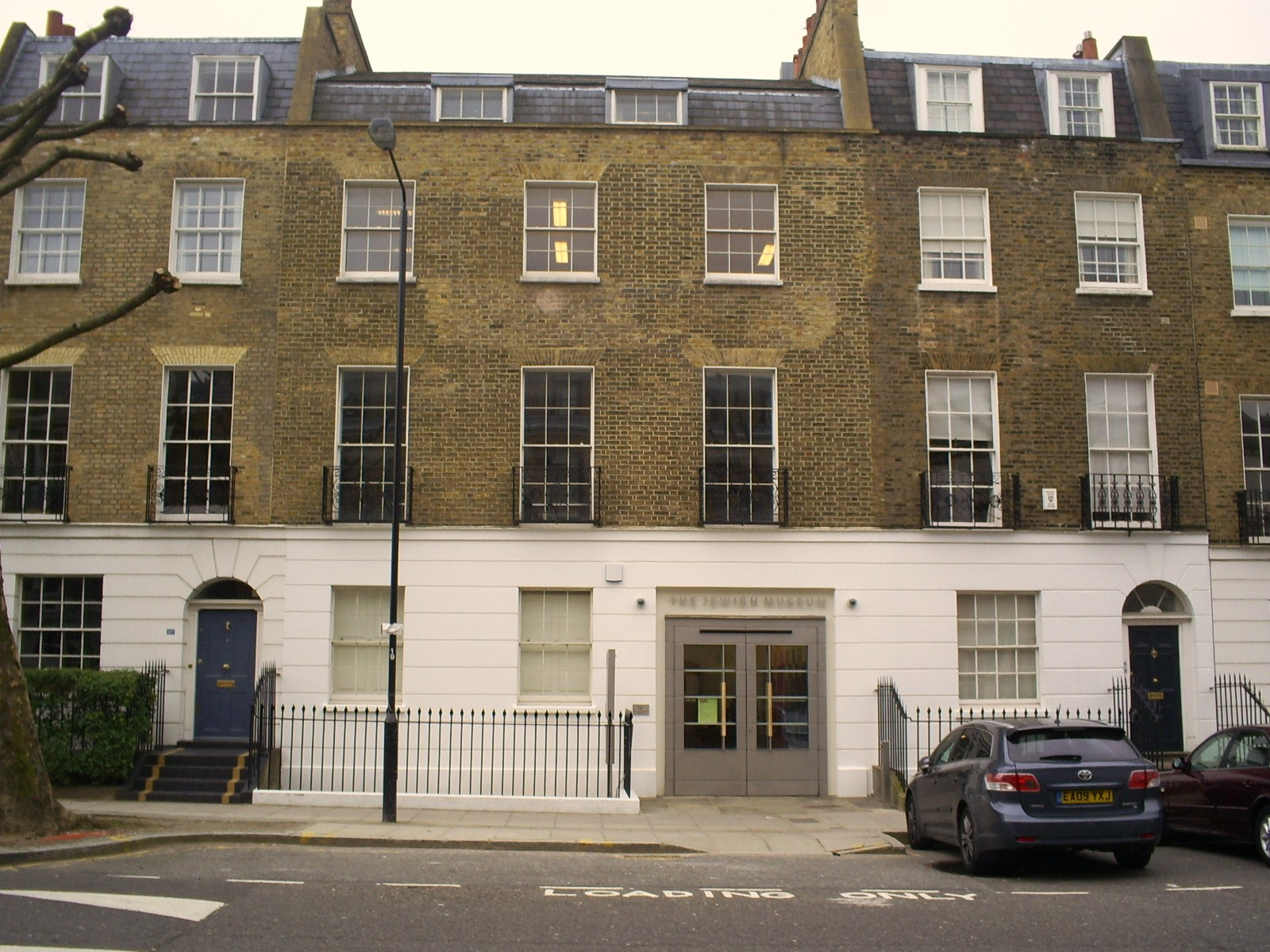 Front of the Jewish Museum London, in George Street , Camden , London